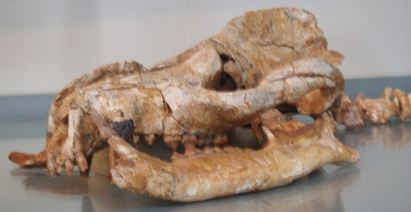 Skull of Arctocyon primaevus, a Paleocene mammal